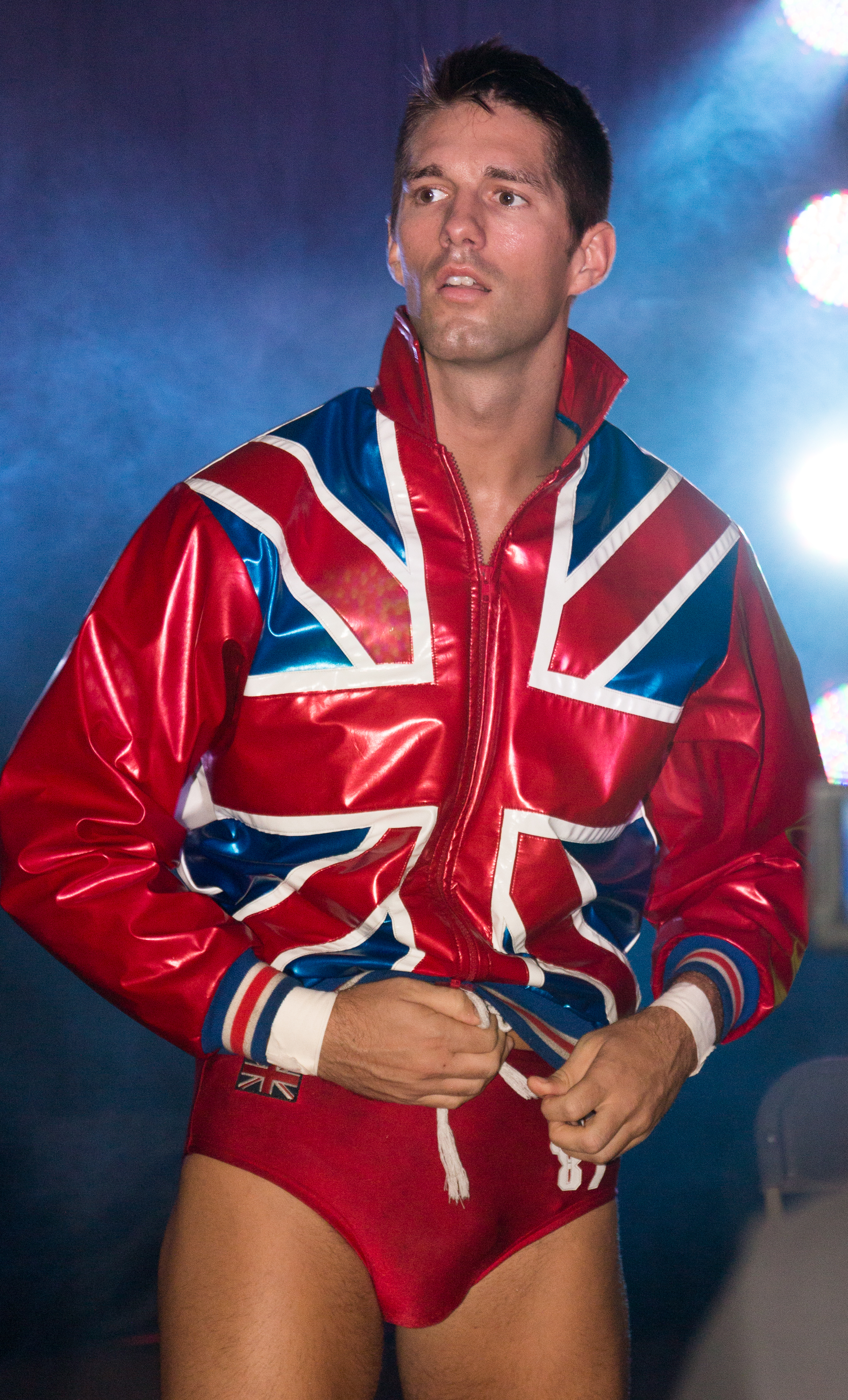 Zack Sabre Jr at Day 2 of Smash Wrestling's "Smash vs. Progress" show in Etobicoke, ON